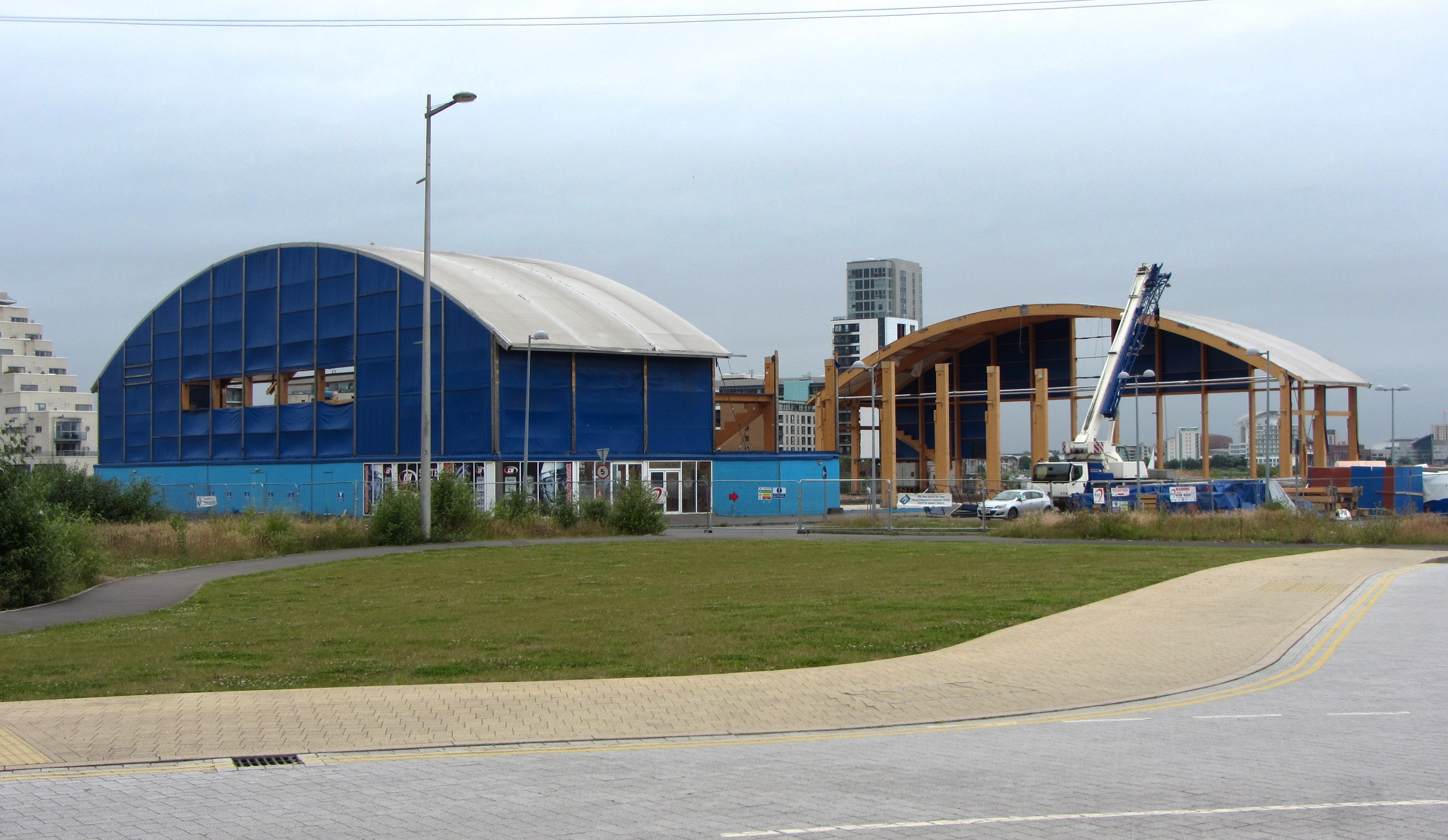 Dismantling of the Cardiff Arena, Cardiff Bay